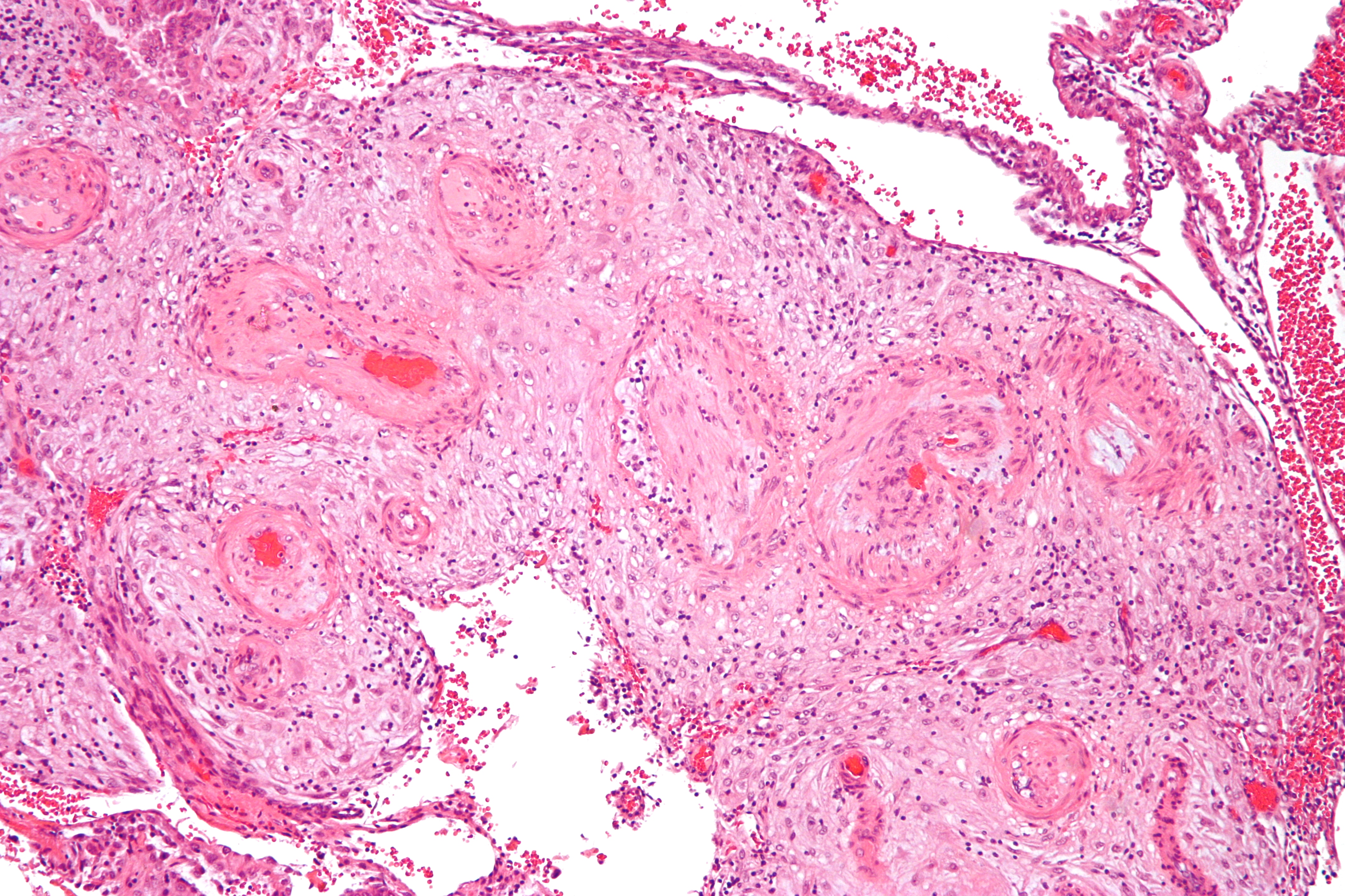 Intermediate magnification micrograph of hypertrophic decidual vasculopathy, as seen in pregnancy-induced hypertension. H&E stain. Related images High mag. Low mag.